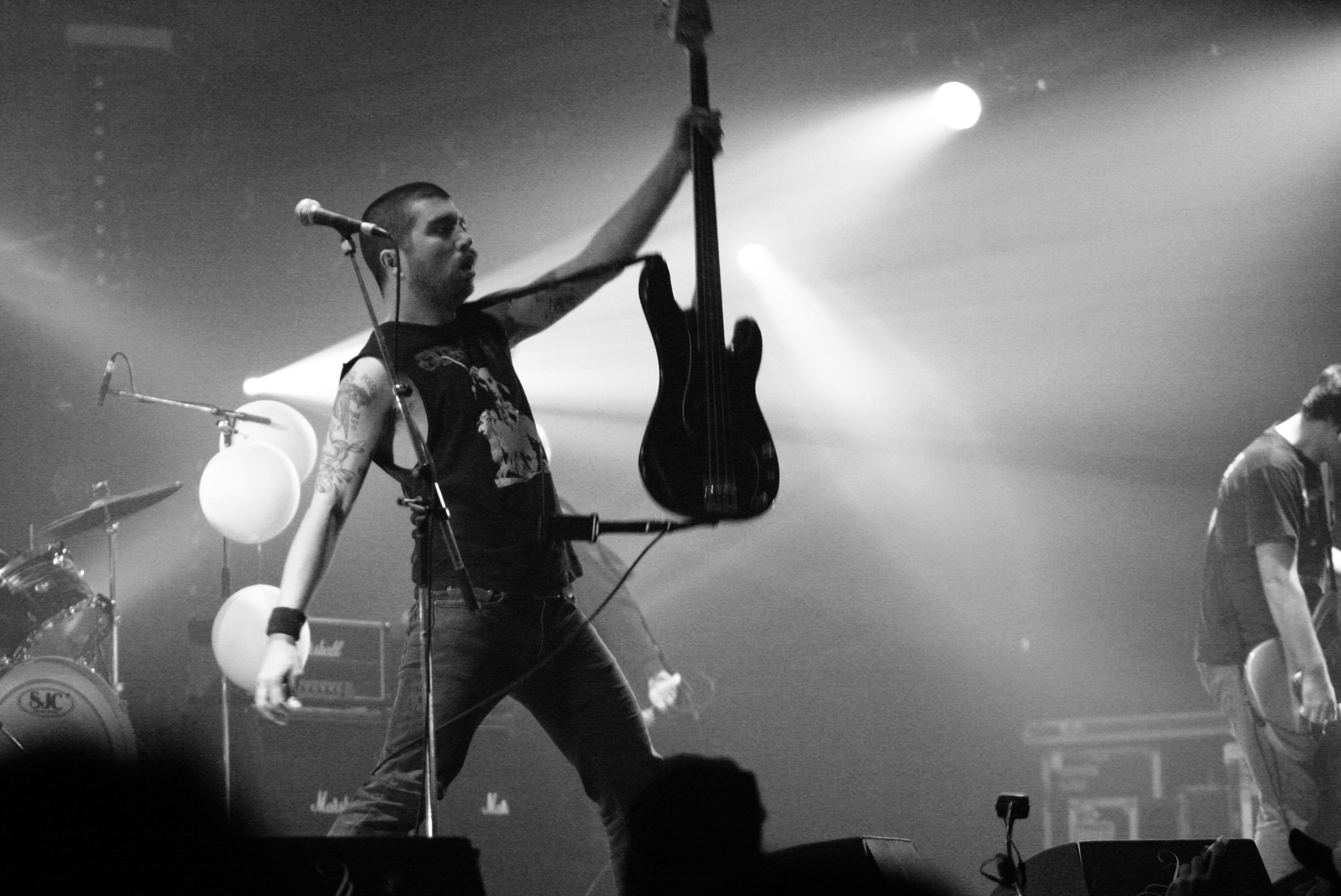 Converge at the Eurockéennes of 2007